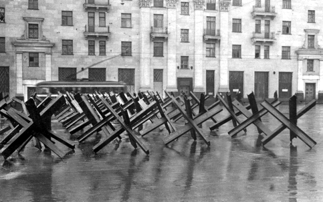 Anti-tank hedgehogs on Moskow streets. Аutumn-winter 1941